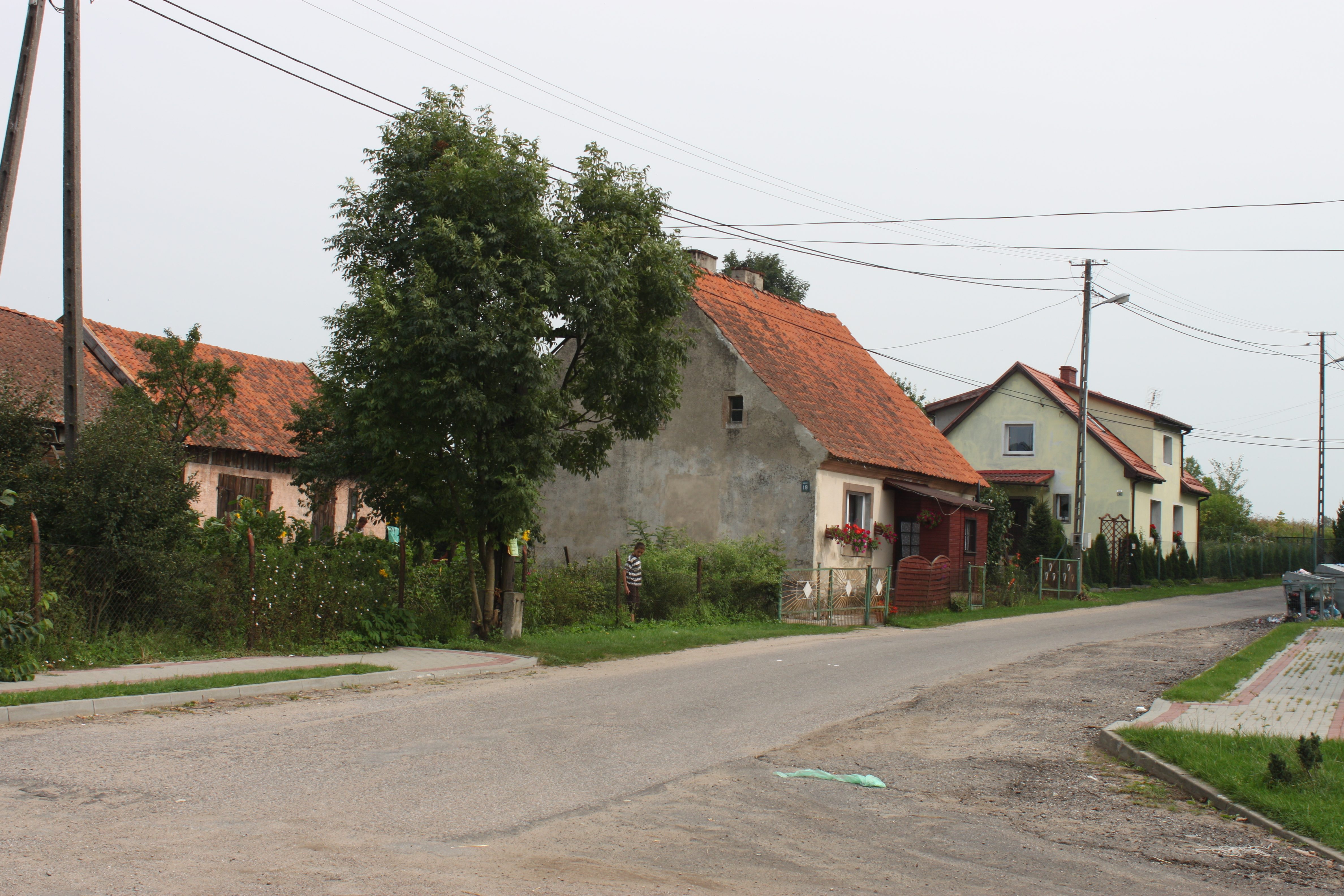 Buildings in Kobułty.